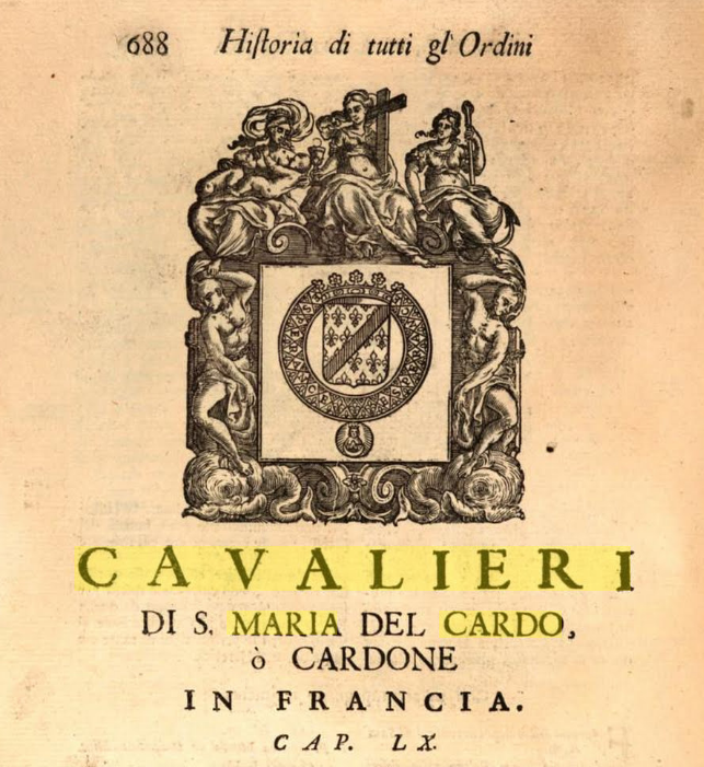 Title page for Cavalieri del Cardone within the book.